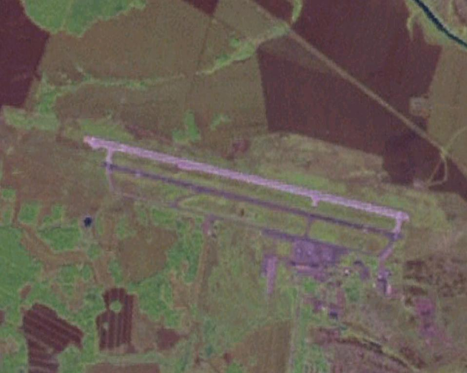 Chelyabinsk/Balandino airfield, former Soviet Union. Image from NASA World Wind.